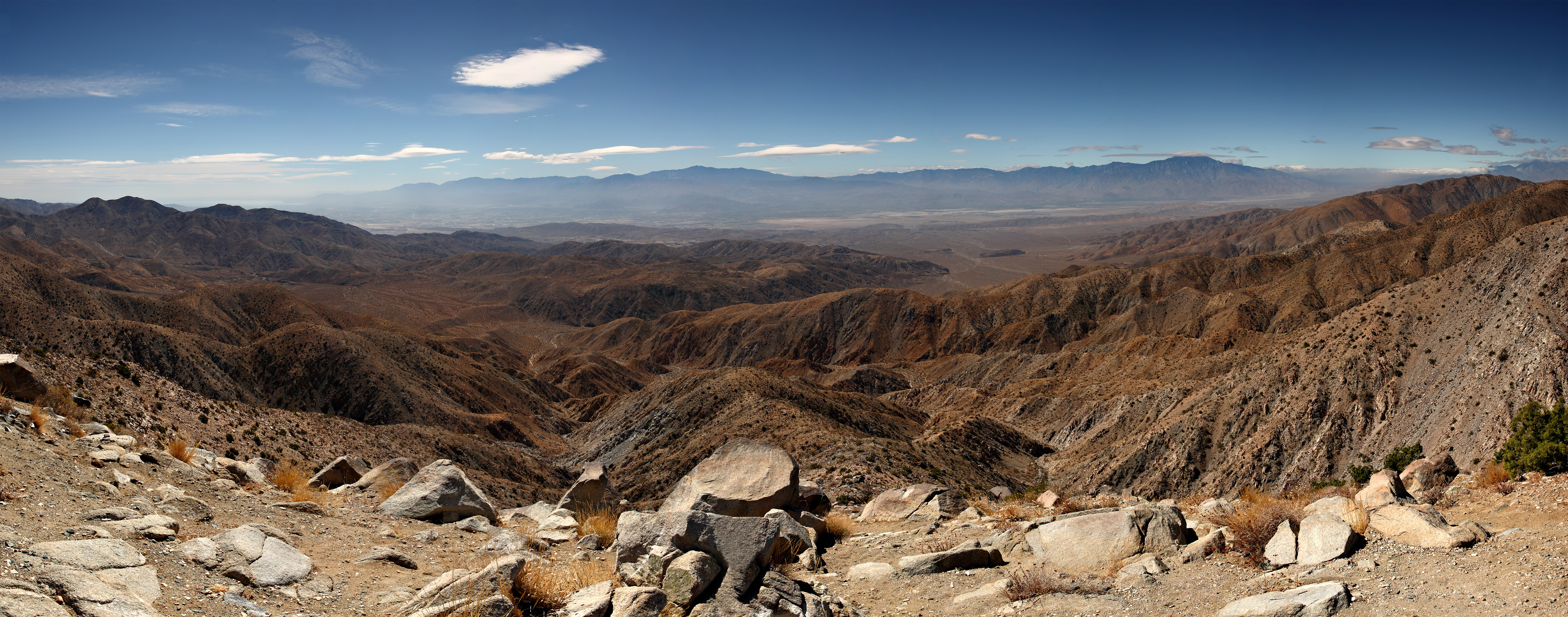 Panorama of the view south from Keys View in the Little San Bernadino Mountains, Joshua Tree National Park, California, USA. Visible landmarks are the Salton Sea (230ft below sea level) at rear left, along towards the center the Santa Rosa Mountains behind Indio and the San Jacinto Mountains behind Palm Springs. In the valley floor, the San Andreas Fault is visible. At the rear right is the 11,500ft San Gorgonio Mountain.